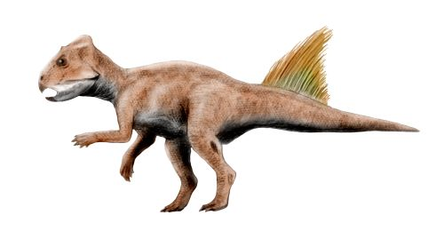 Archaeoceratops